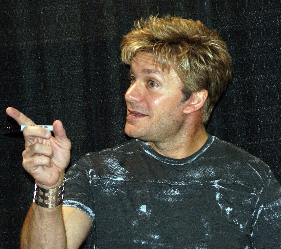 Vic Mignogna attending the Calgary Comic & Entertainment Expo in BMO Centre, Calgary, Alberta, Canada.